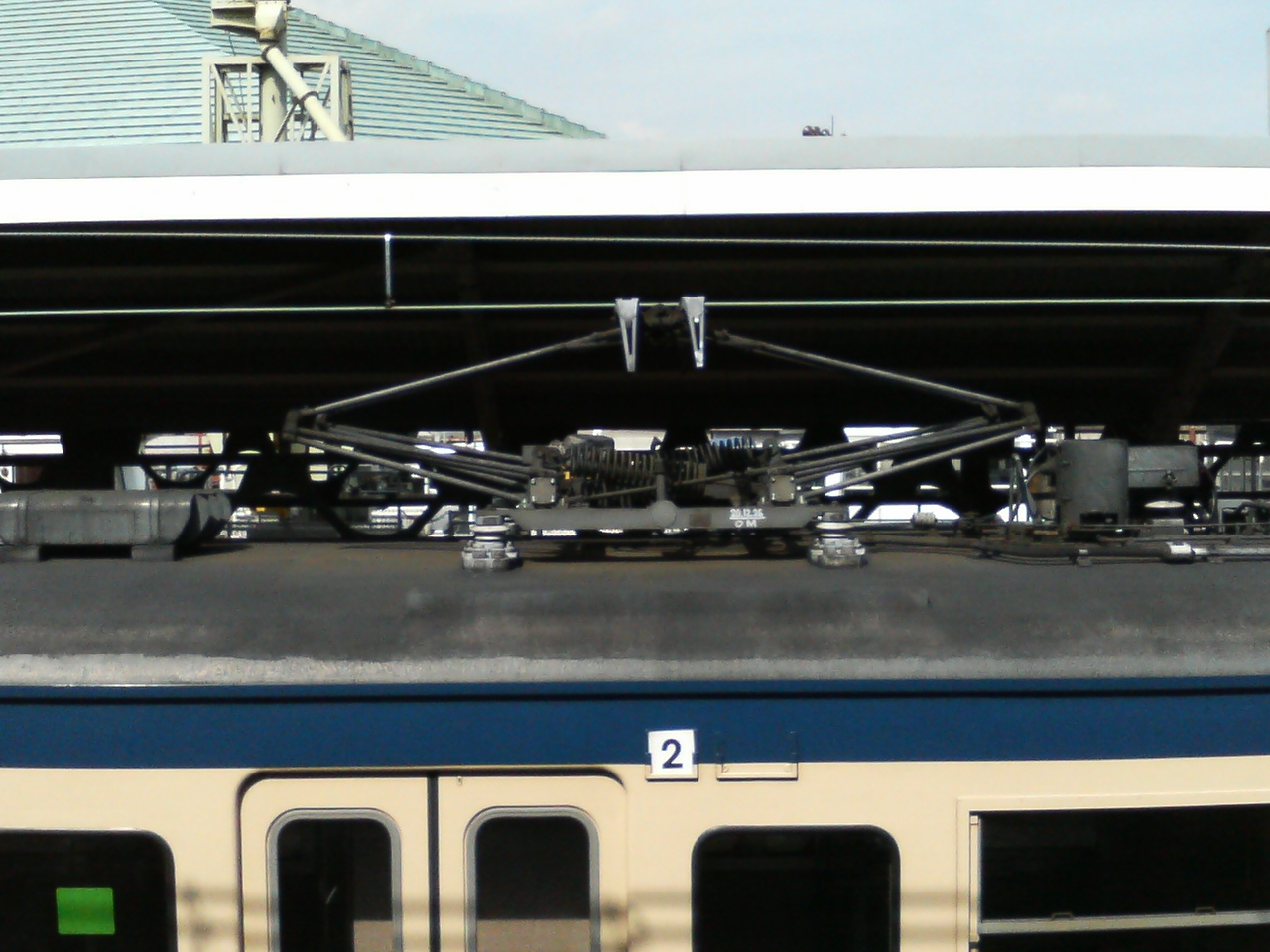 A pantograph of the JNR113 (JR East) series train.